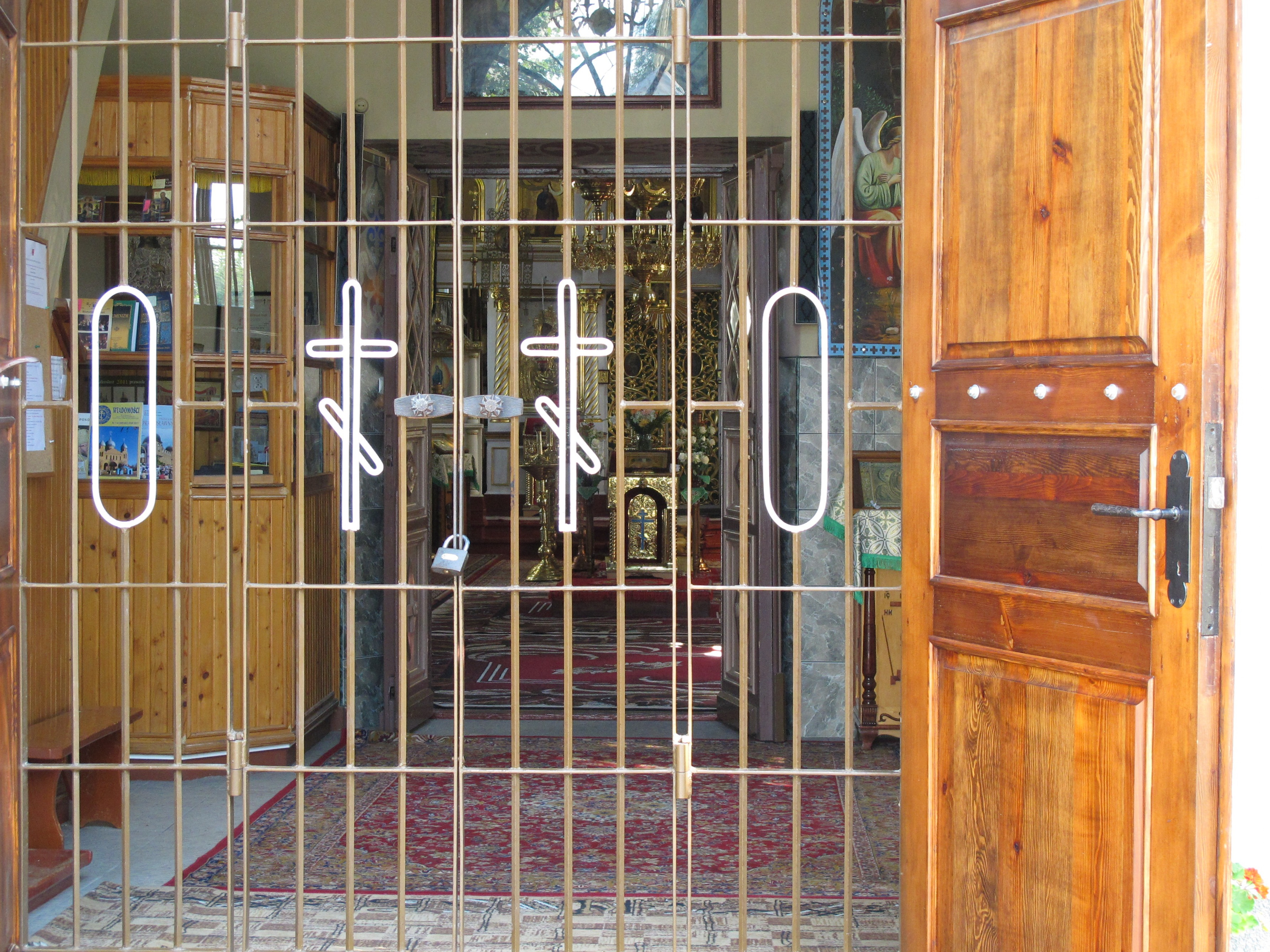 Lord's Resurrection orthodox church by Traugutta 3 street in Bielsk Podlaski, gmina Bielsk Podlaski, podlaskie, Poland.